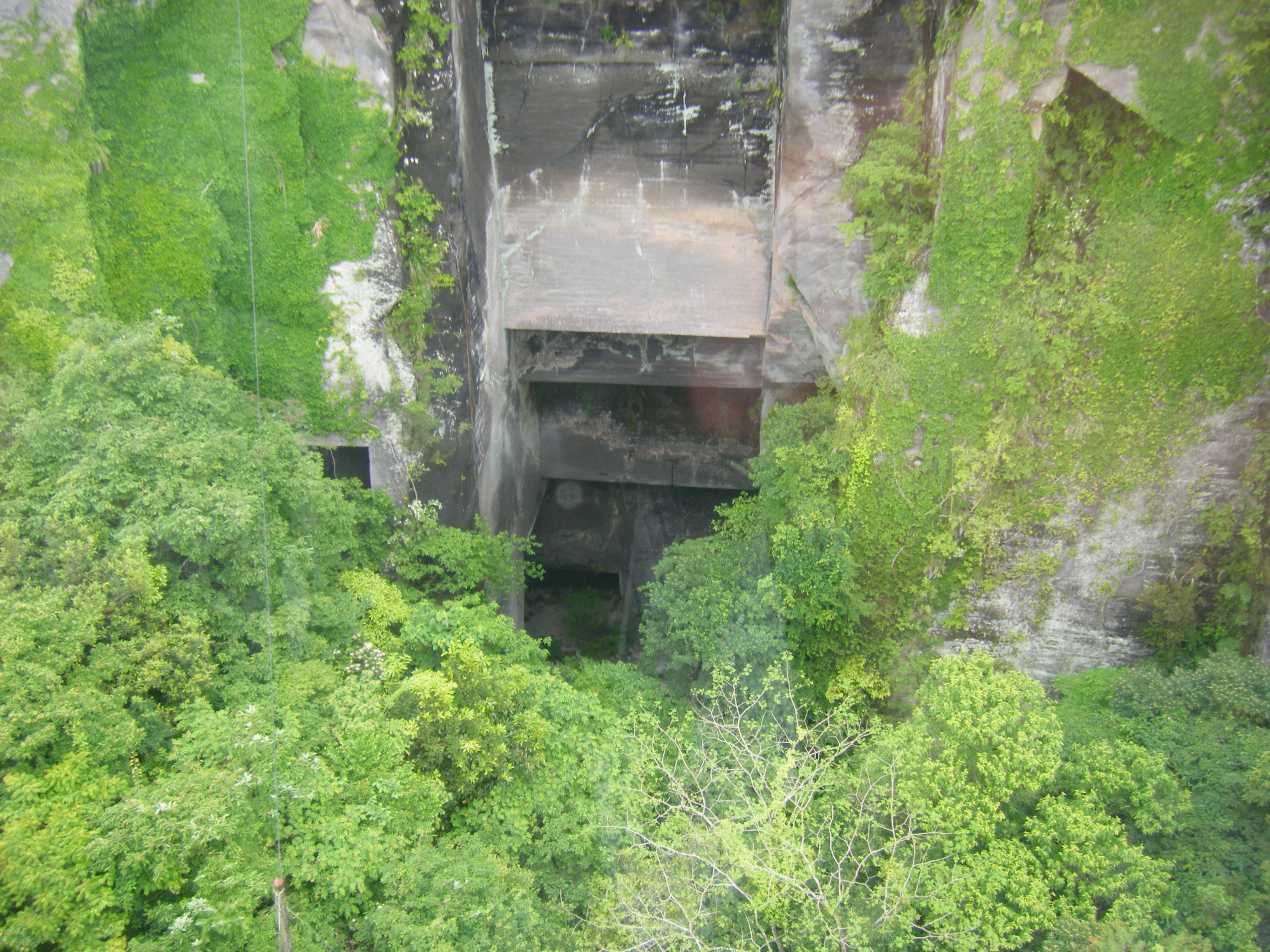 View from Nokogiriyama Ropeway. Remains of Mount Nokogiri quarry in Chiba, Japan